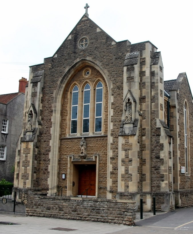 The front of The Church of Our Lady St Mary of Glastonbury, as seen from Magdalene Street.